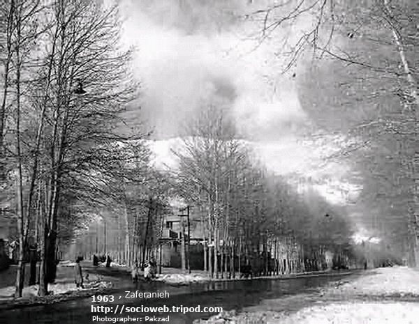 Zafaraniyeh, a famous neighbourhood in the north of Tehran.